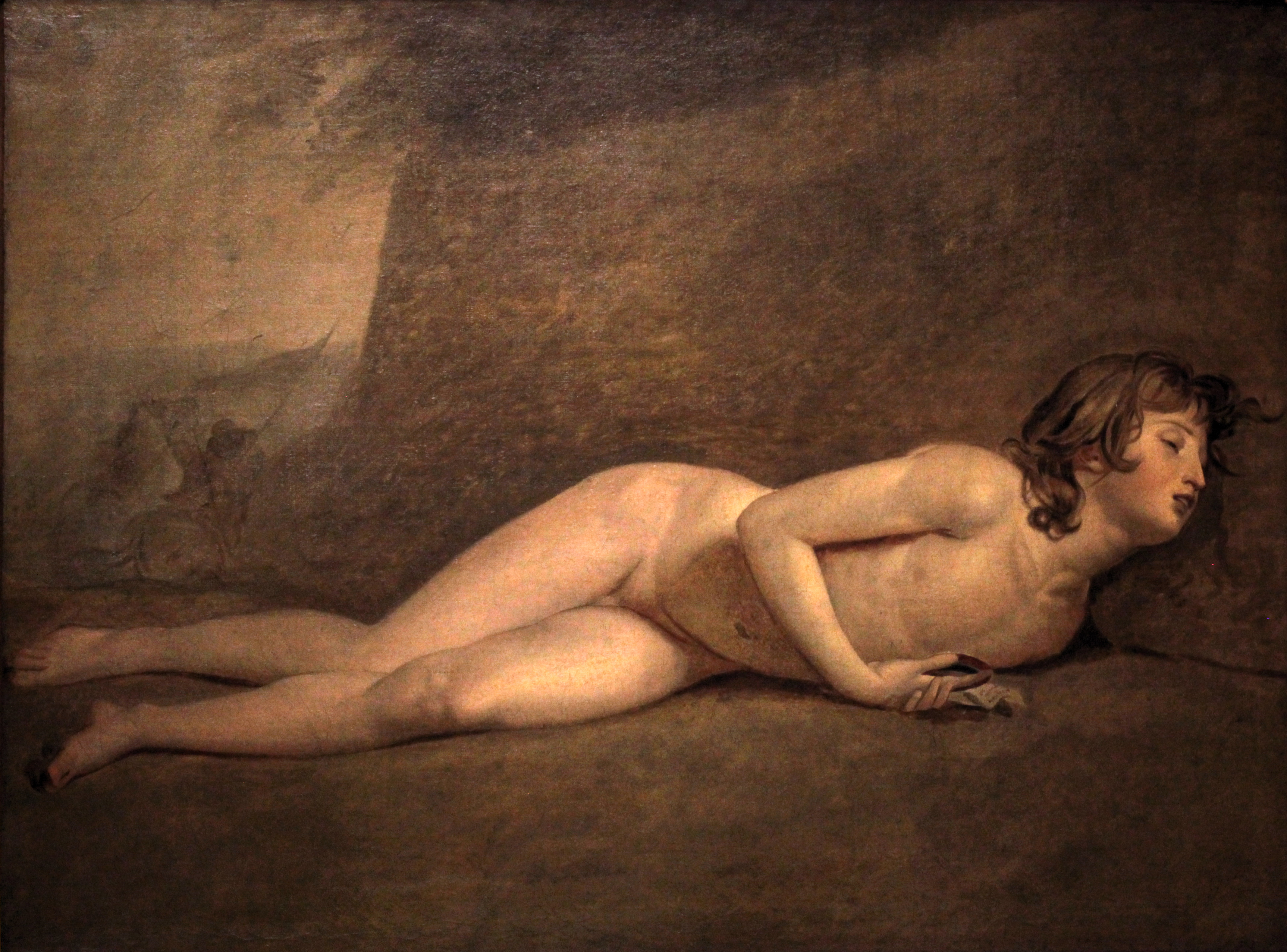 Death of Joseph Bara, by a pupil of Jacques-Louis David. Oil on painting, after 1794. Lent by Lille Fine Arts museum in 2004. On display at Château de Vizille, accession number MRF D 2004-9.